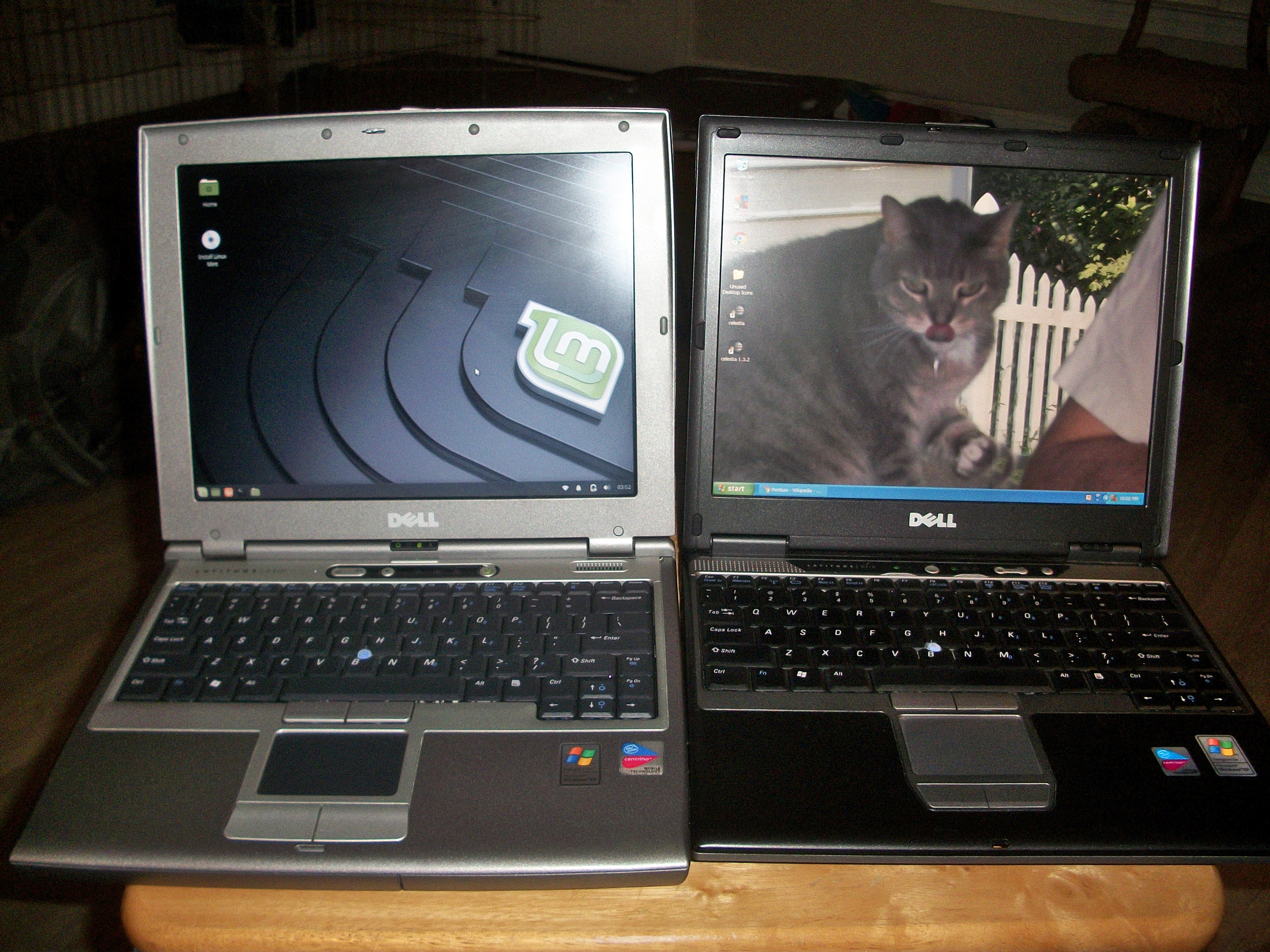 Dell Latitude D400 & D410